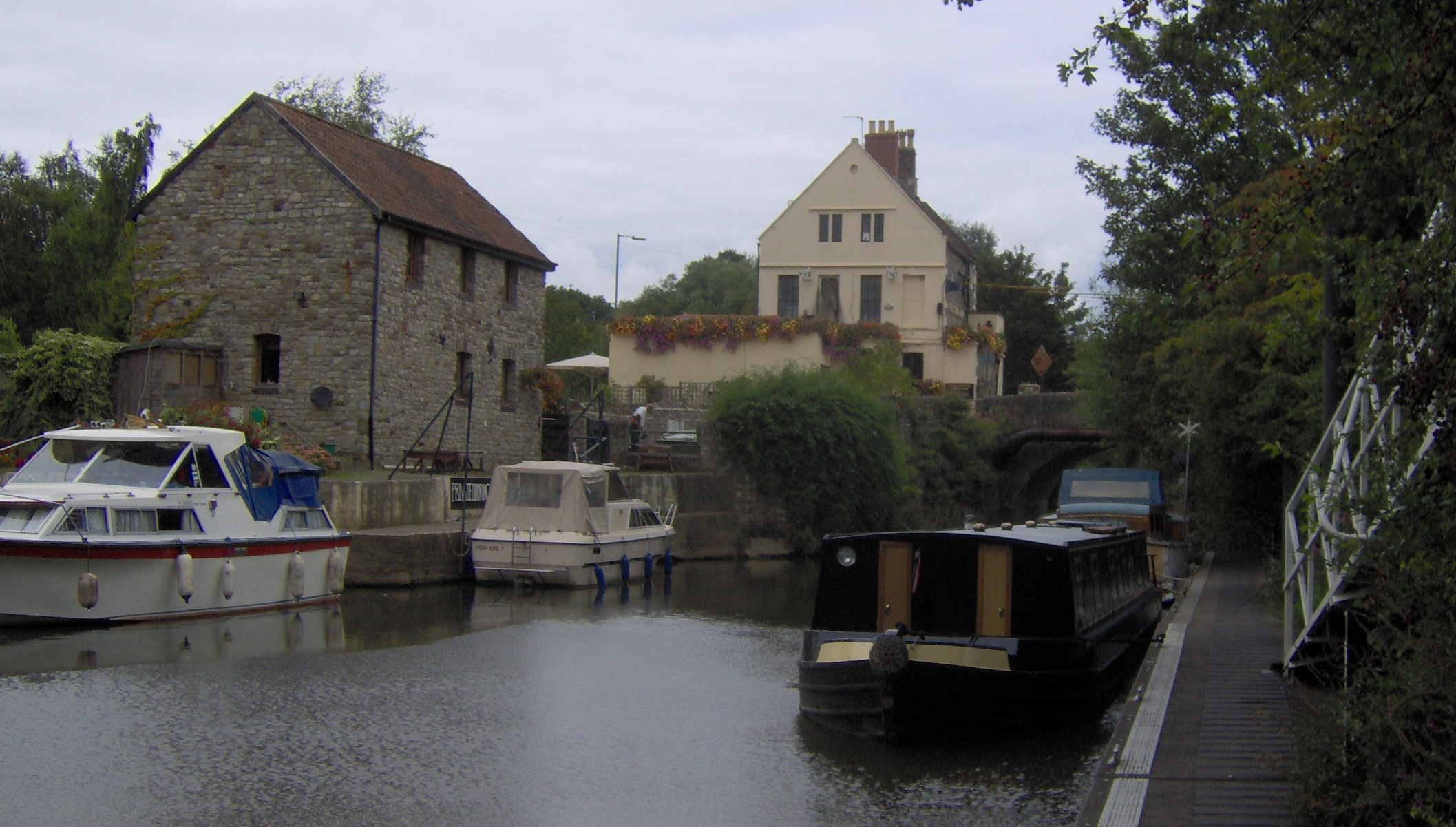 Morring by the Lock Keeper pub and lock at Keynsham Lock. Taken by Rod Ward August 2006